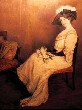 sister of the painter